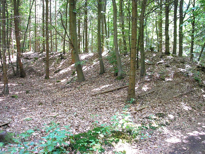 Early Middle Ages hill fort near Schorn (Pöttmes, Landkreis Aichach-Friedberg, Bavaria, Germany). The western earthworks, seen from inside